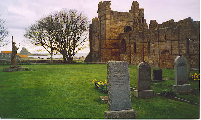 St Aidan's Statue and Lindisfarne Priory. On Holy Island, where English Christianity has roots.